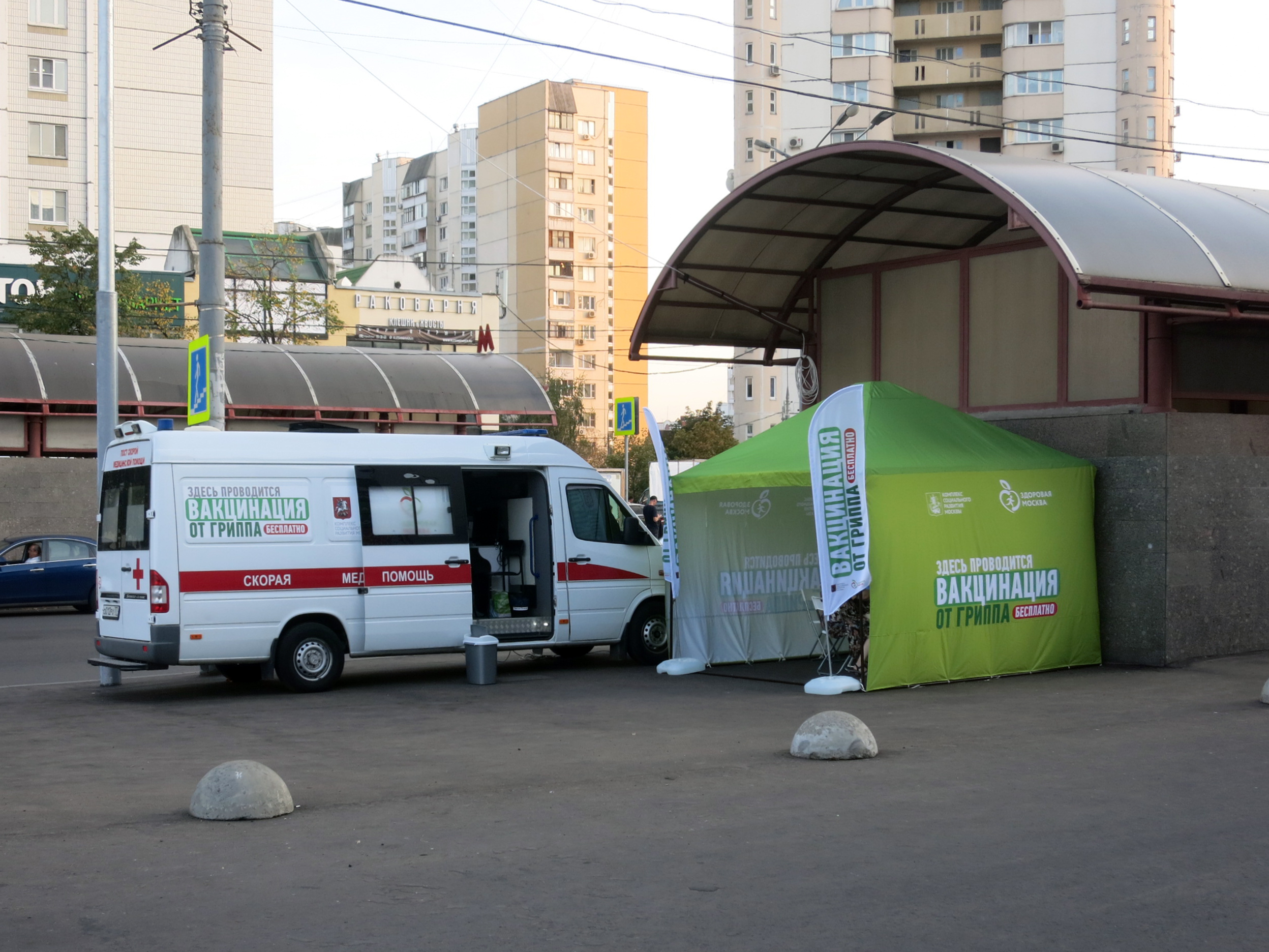 Street influenza vaccination in Moscow (Pererva street, district Maryino). September 9, 2019